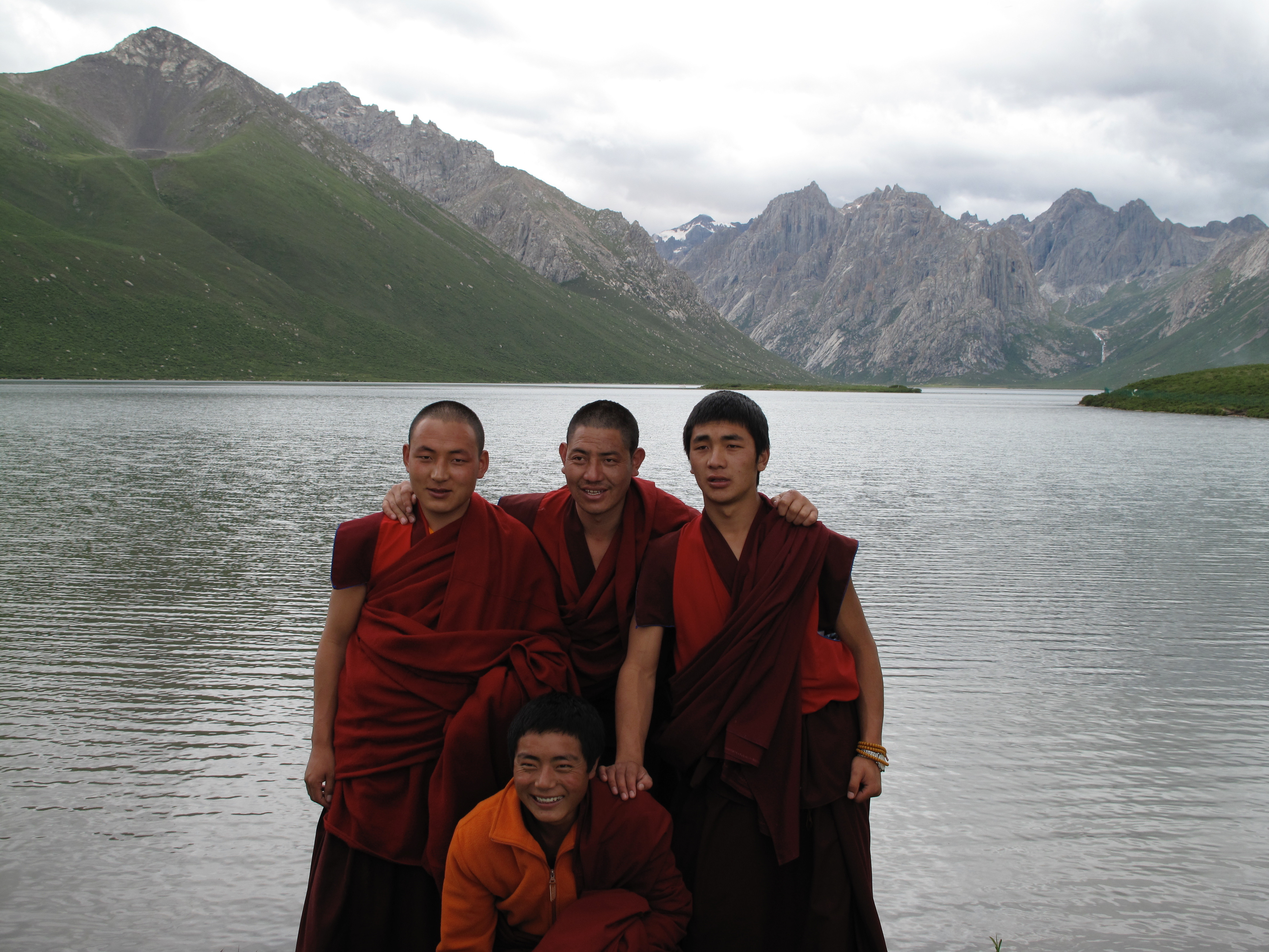 Tibetan Buddhists posing in front of Lake Ximencuo on the Tibetan Plateau